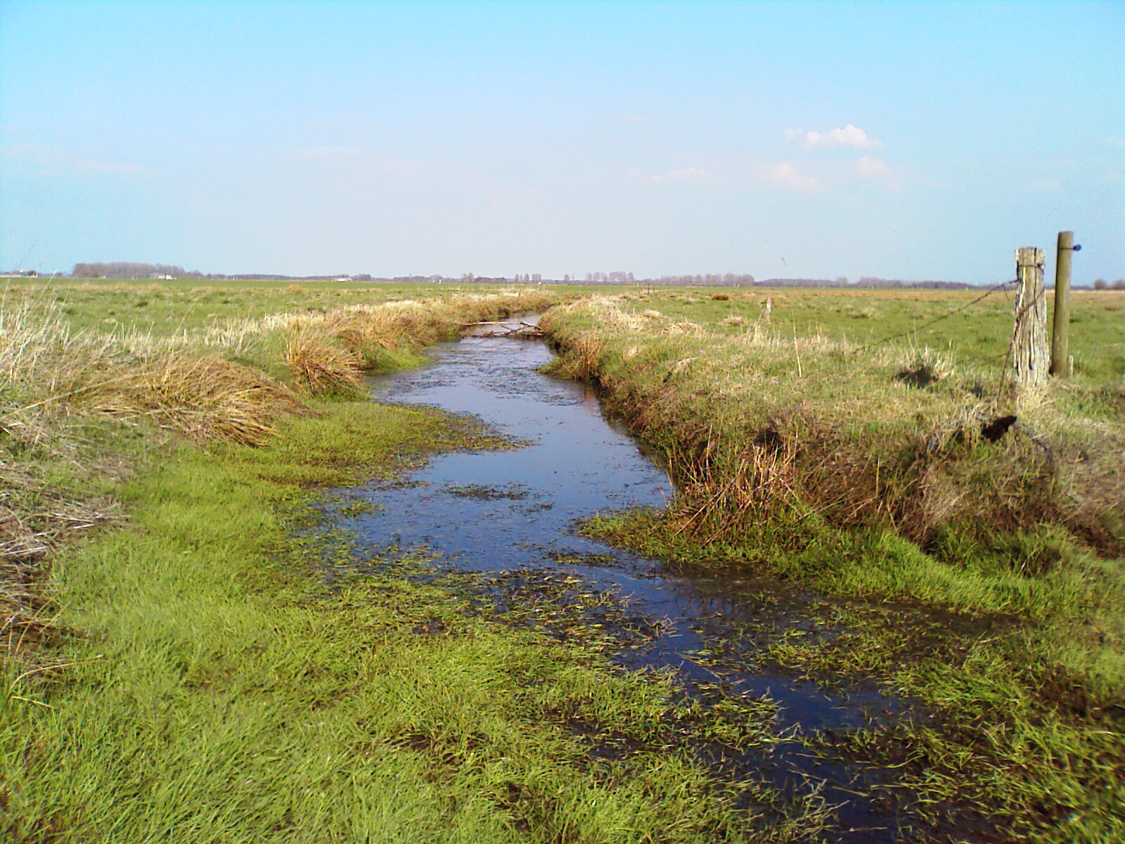 Wet meadows close to the Dellstedter Birkwildmoor